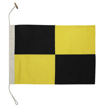 Nautical L Flag